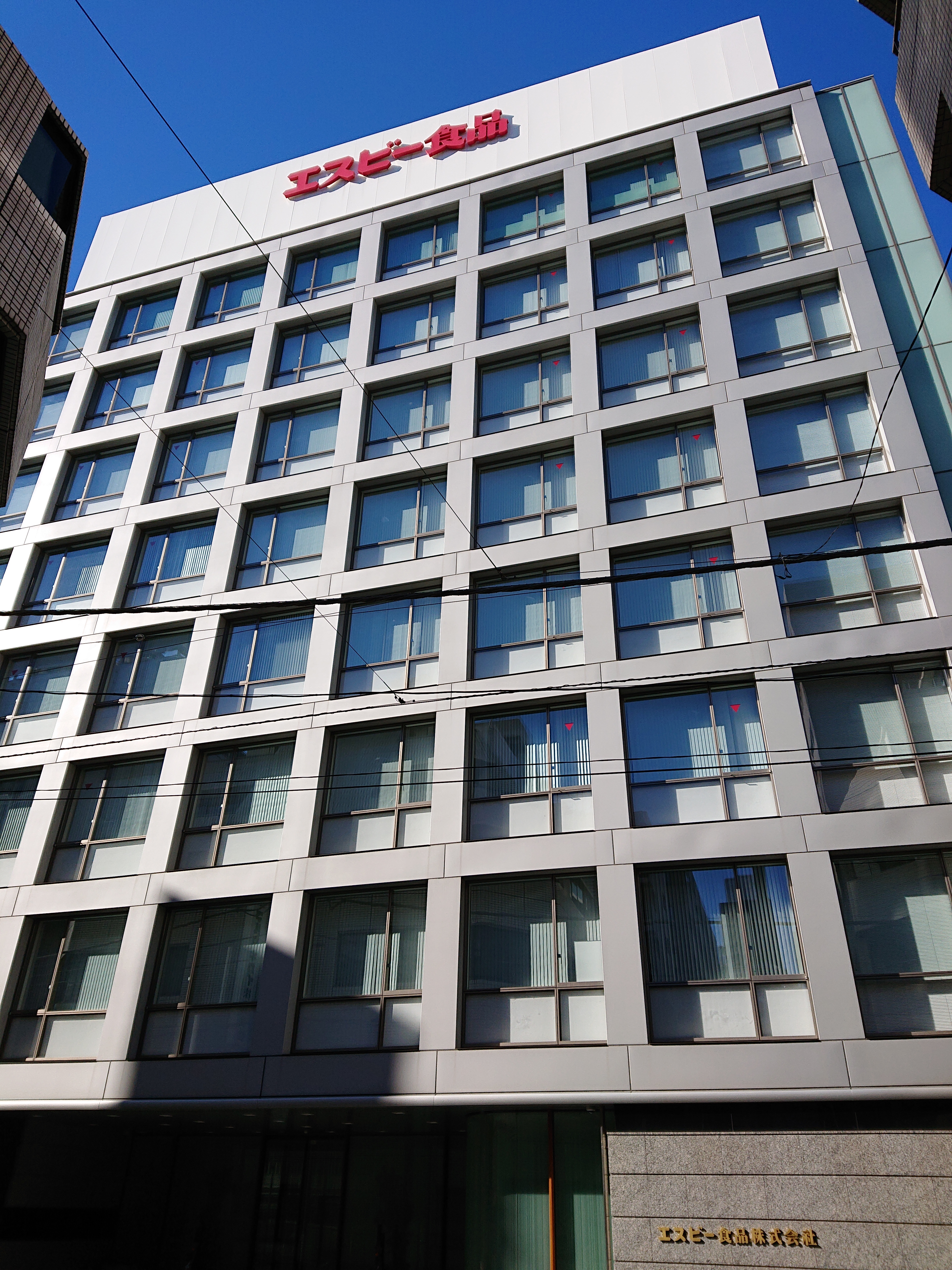 S & B foods (ヱスビー食品) headquarters, located at 18-6 Nihonbashi-Kabutocho, Chuo, Tokyo, Japan